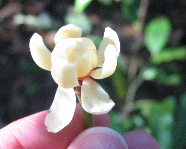 Flower of the Idiospermum australiense plant.